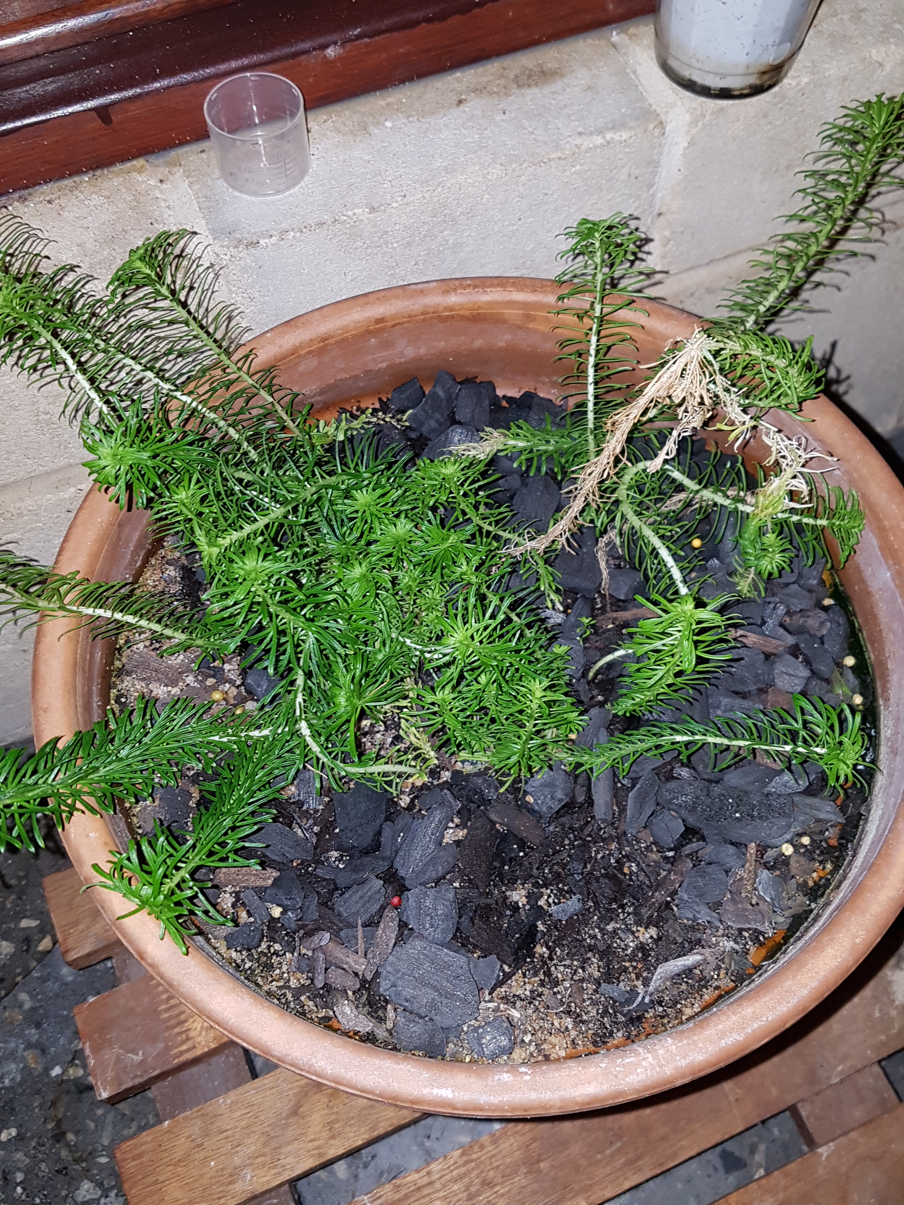 Stylidium adnatum: 33% propagating sand, 33% horticultural charcoal, 33% native compost, in terracotta pot with slow release low phosphorus fertiliser.